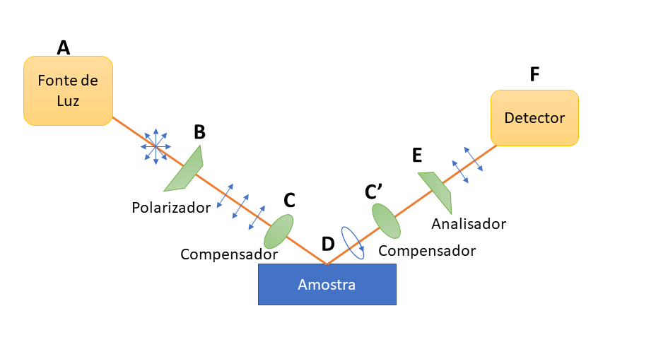 An schematic basics functioning of and ellipsometer